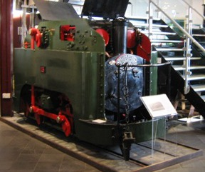 Locomotive N°13 from the Guinness Brewery, at the Narrow Gauge Railway Museum